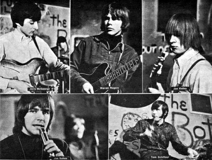 Composite photos of the members of the group Shadows of Knight in 1966. Top, from left-Jerry McGeorge, Warren Rogers, Joe Kelley. Bottom from left-Jim Sohns and Tom Schiffour.